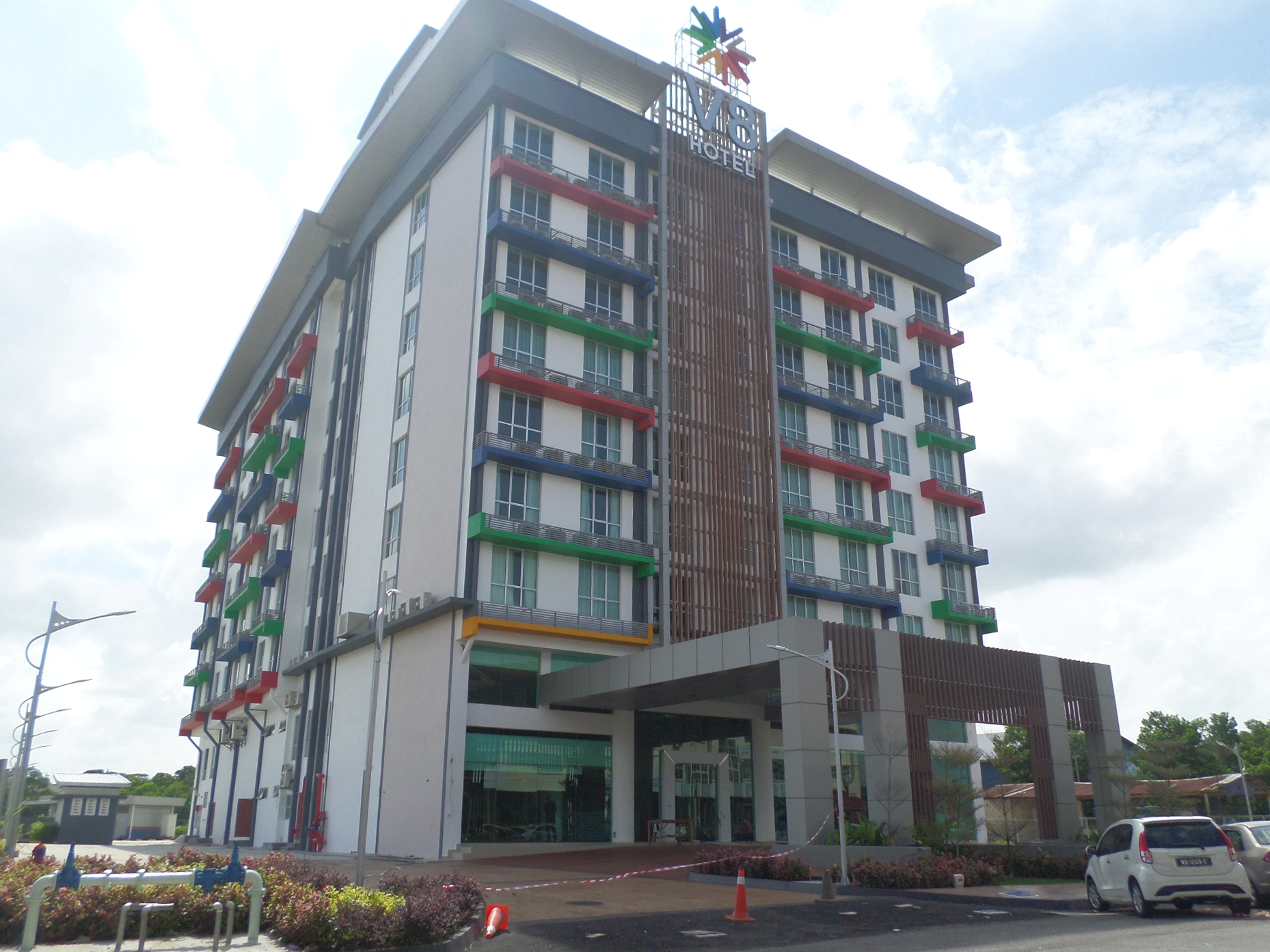 V8 Hotel, Skudai, Iskandar Puteri, Johor Bahru, Johor, Malaysia